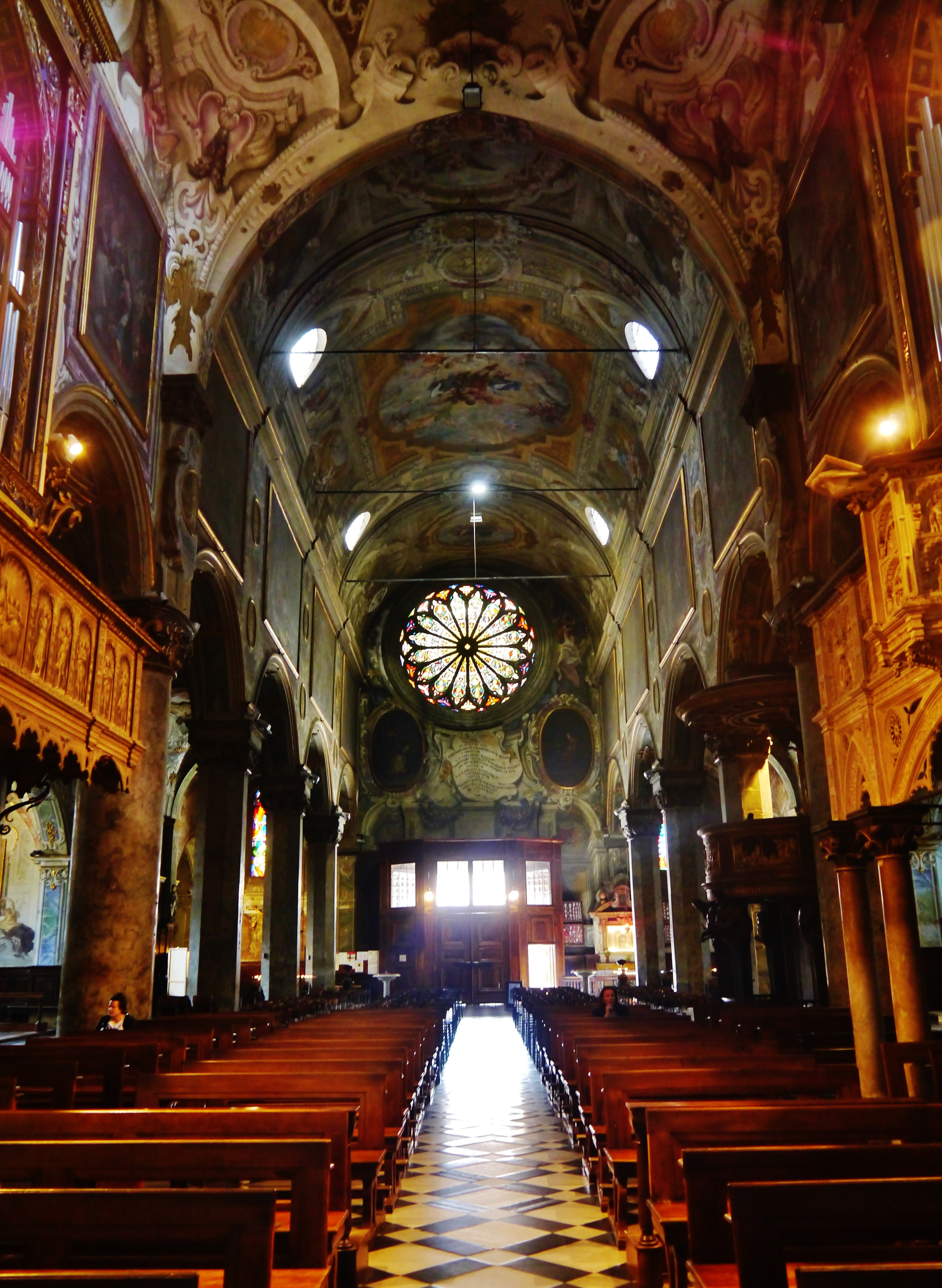 Nave of the Church of St. John the Baptist, Monza, Province of Monza & Brianza, Region of Lombardy, Italy